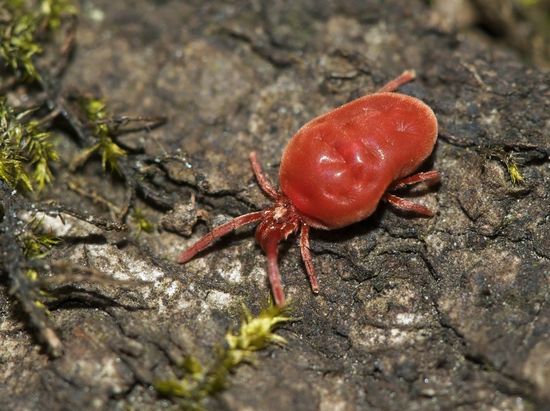 Velvet mite (Trombidium holosericeum), Chemnitz, Germany